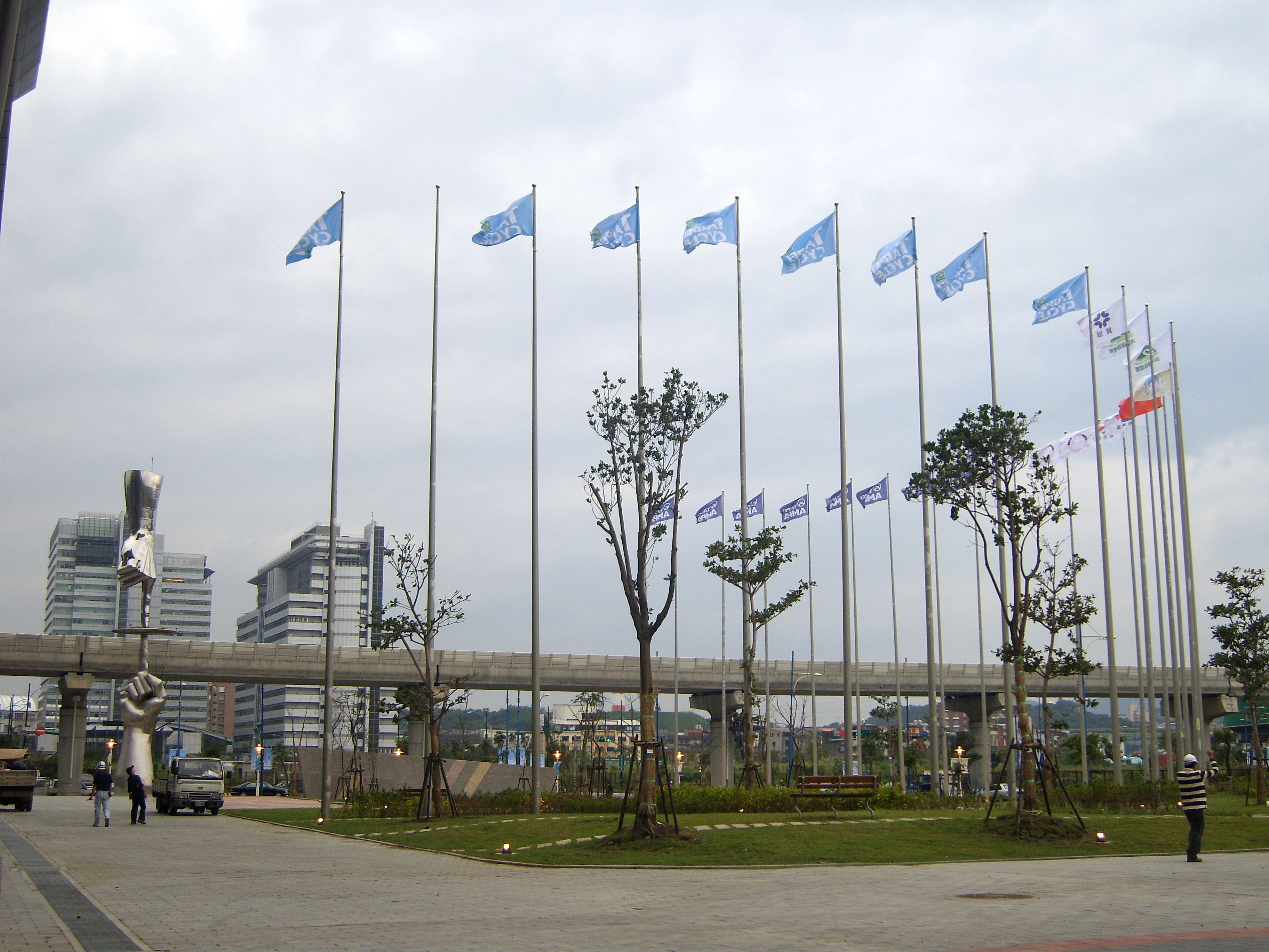 Biz Plaza of TWTC Nangang.